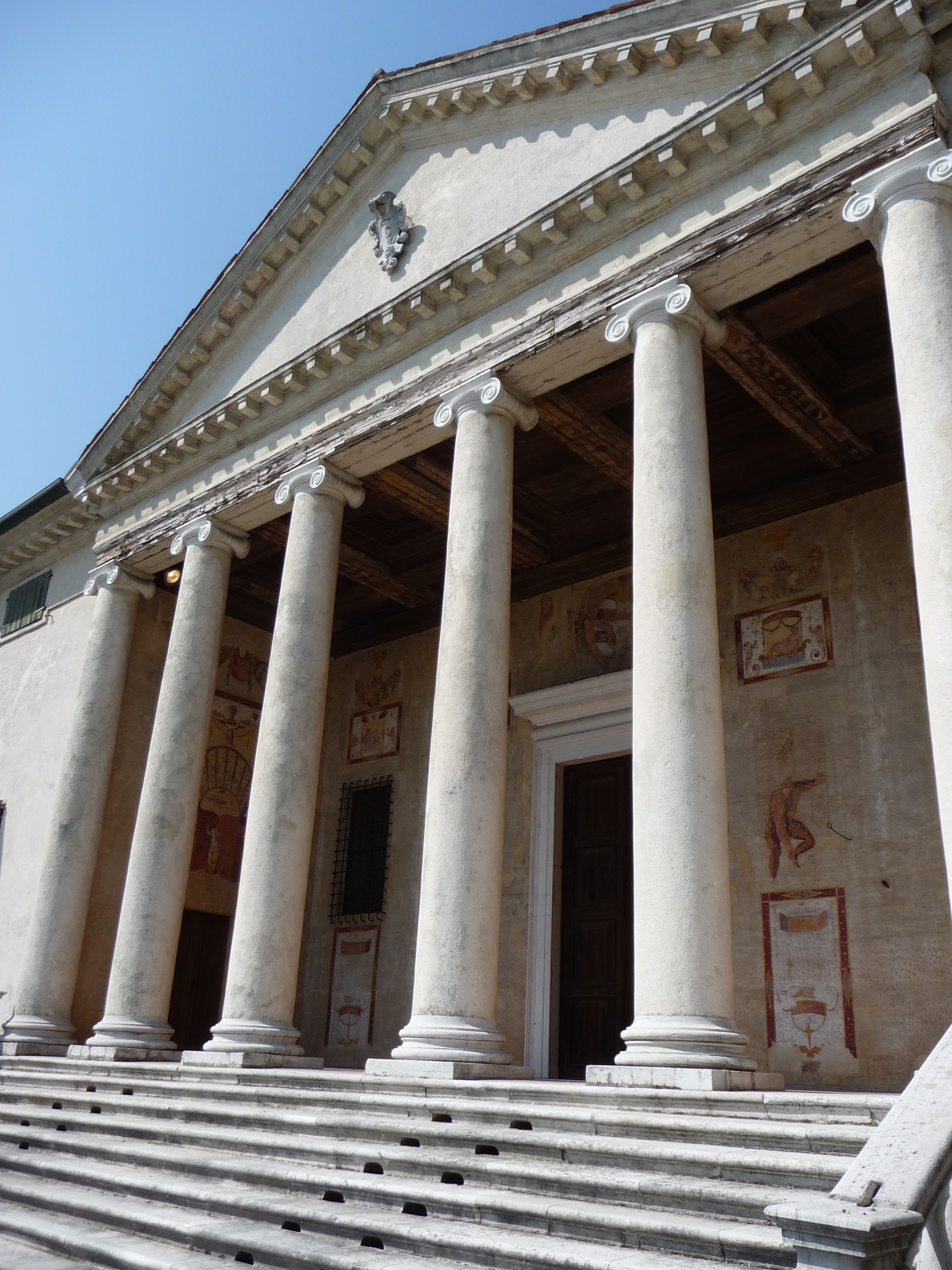 Villa Badoer in Fratta Polesine, province of Rovigo, Italy, designed by Andrea Palladio in 1554 and built 1556-1563.